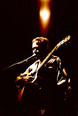 Susmit Sen (acoustic guitar) in Indian Ocean (band)